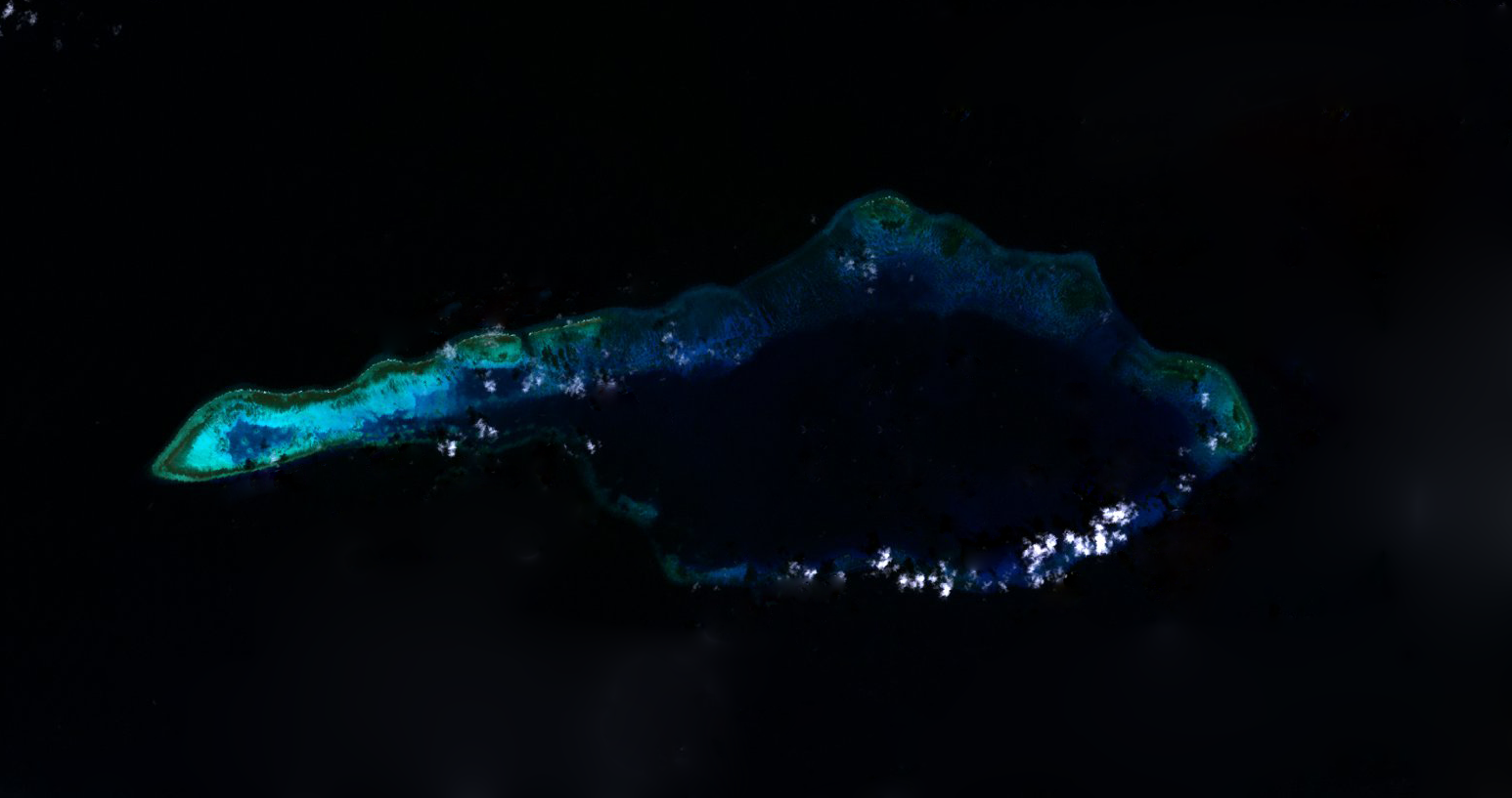 Investigator Shoal is an atoll of Spratly Islands.